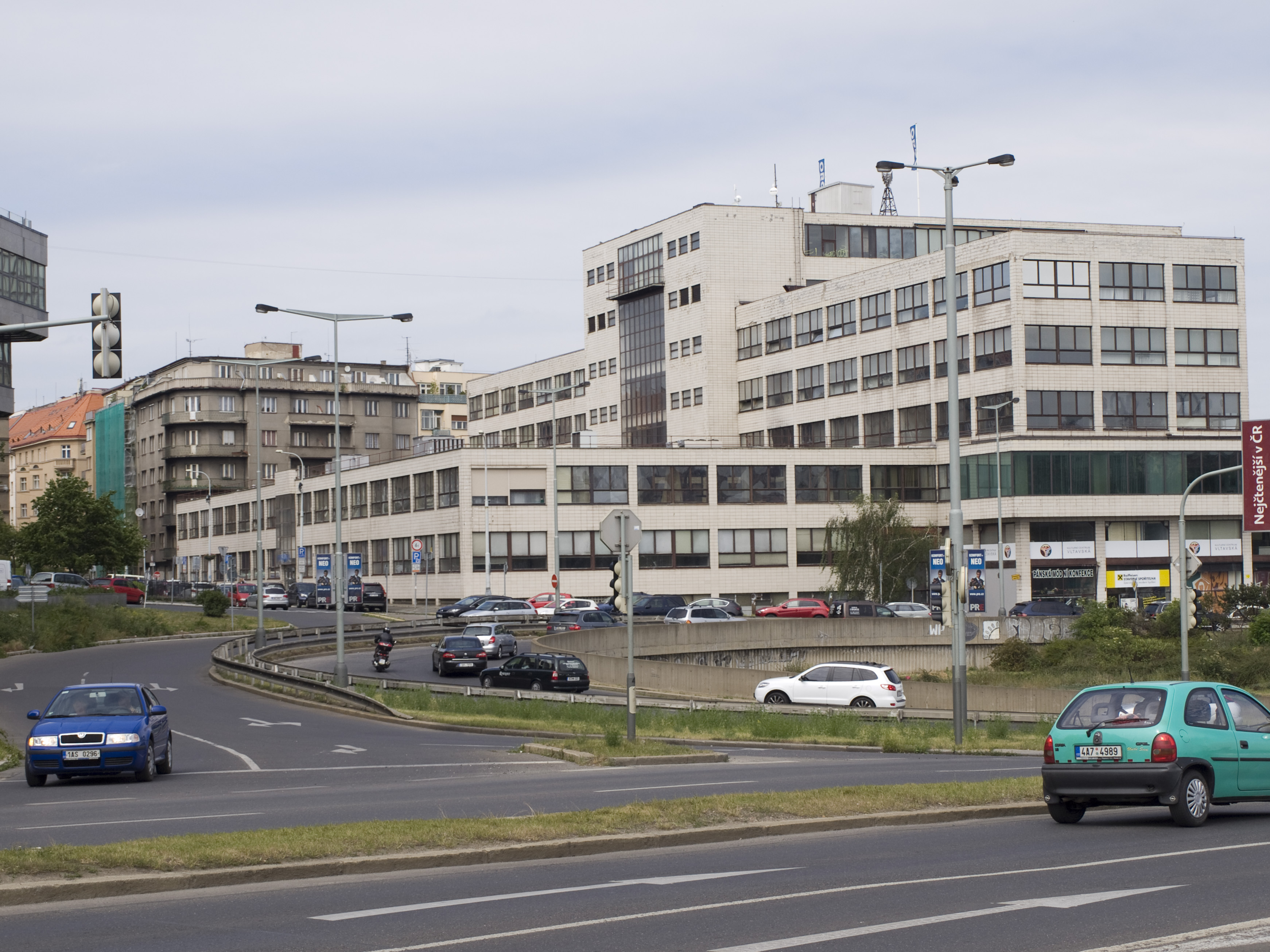 Vltavská, Prague